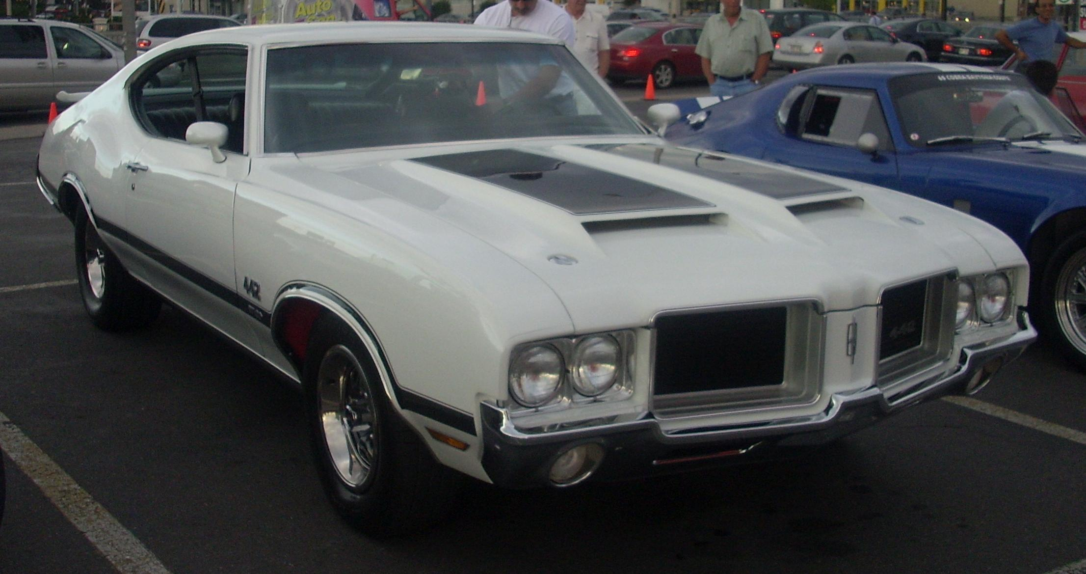 Oldsmobile 442 photographed in Montreal, Quebec, Canada at Gibeau Orange Julep.